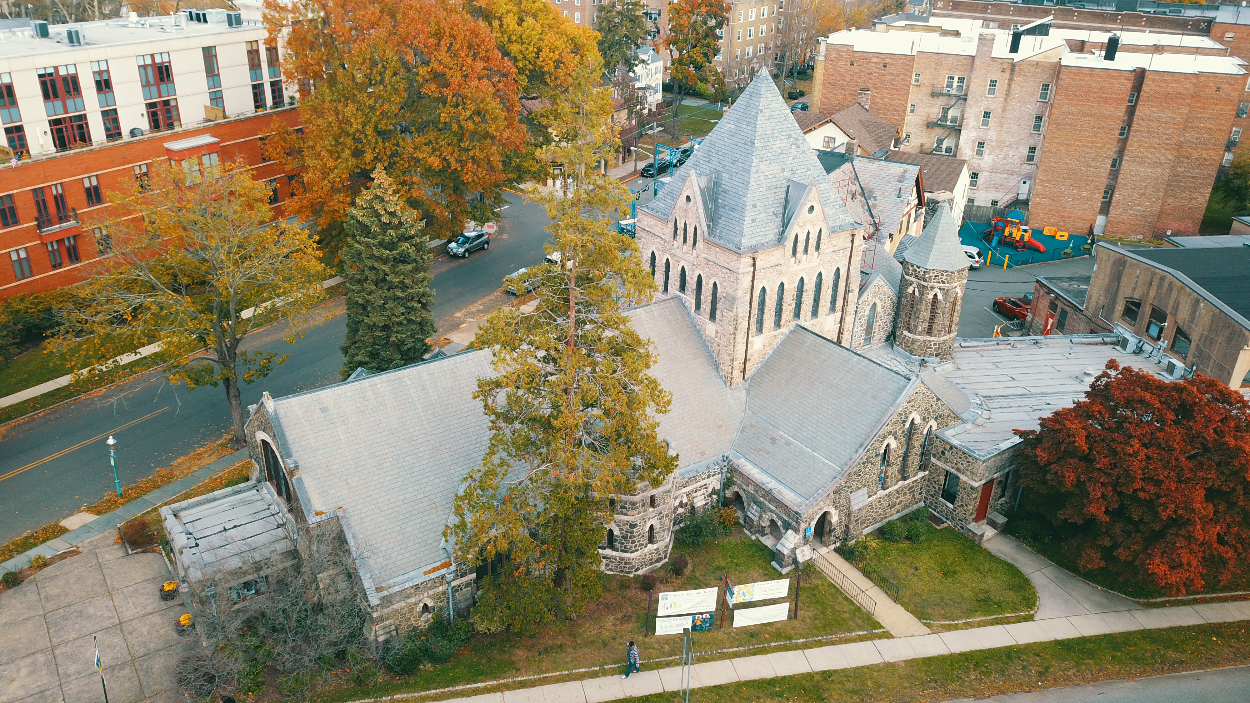 Drone footage of this church designed by William Halsey Wood.